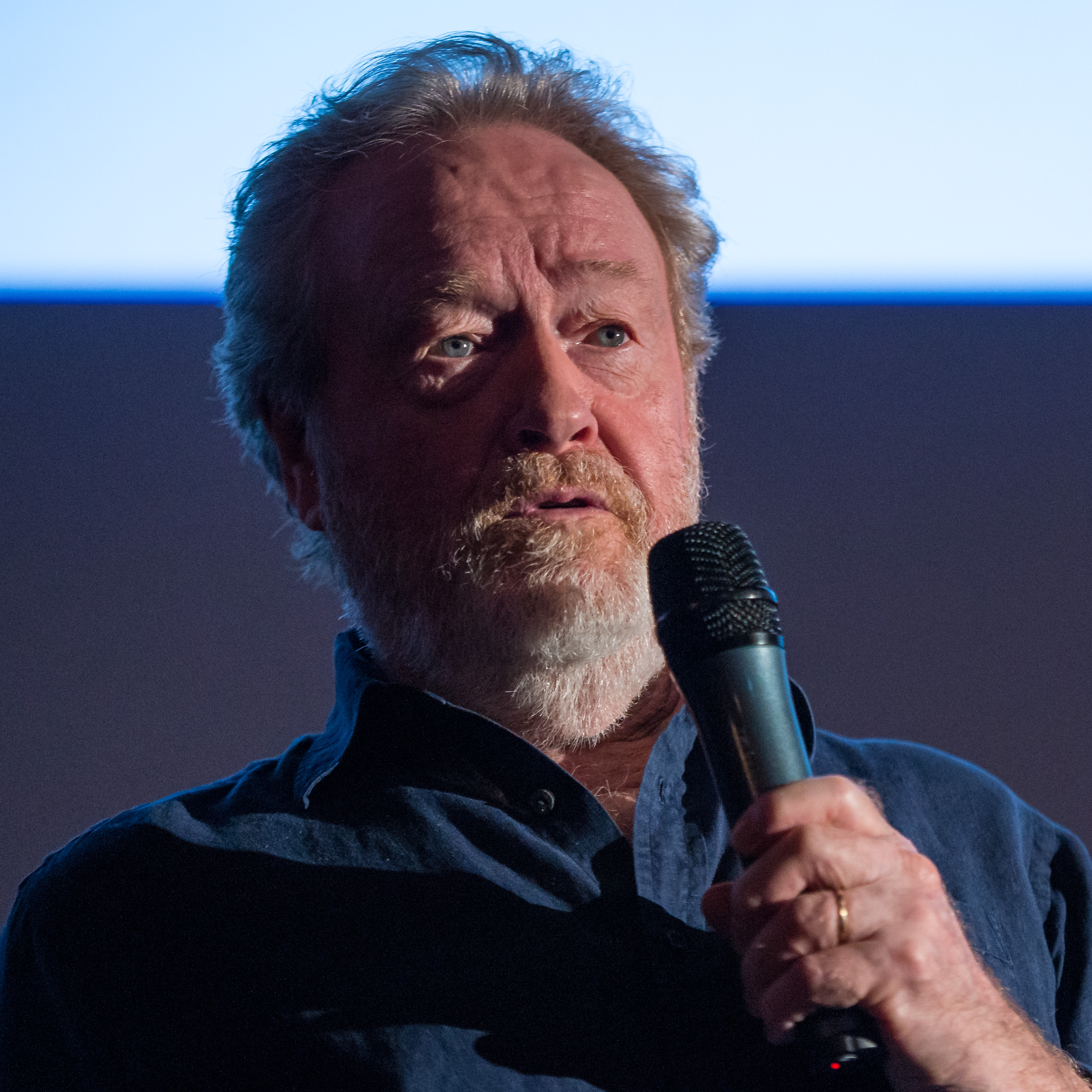 Director Ridley Scott discusses NASA’s journey to Mars and the film ”The Martian,” Tuesday, Aug. 18, 2015, at the United Artist Theater in La Cañada Flintridge, California. NASA scientists and engineers served as technical consultants on the film. The movie portrays a realistic view of the climate and topography of Mars, based on NASA data, and some of the challenges NASA faces as we prepare for human exploration of the Red Planet in the 2030s.